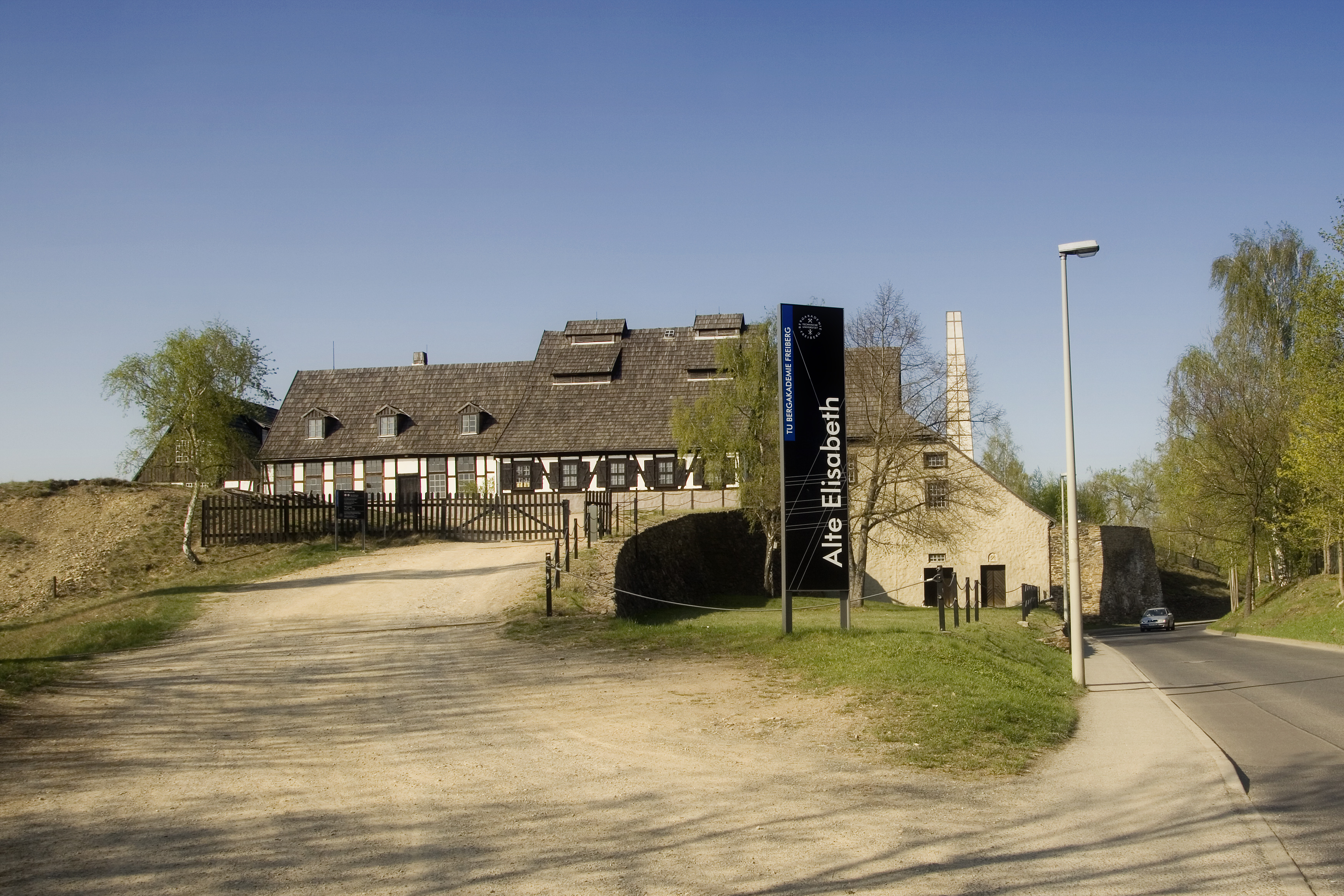 former mine "Alte Elisabeth" in Freiberg, Saxony, now used to train students.